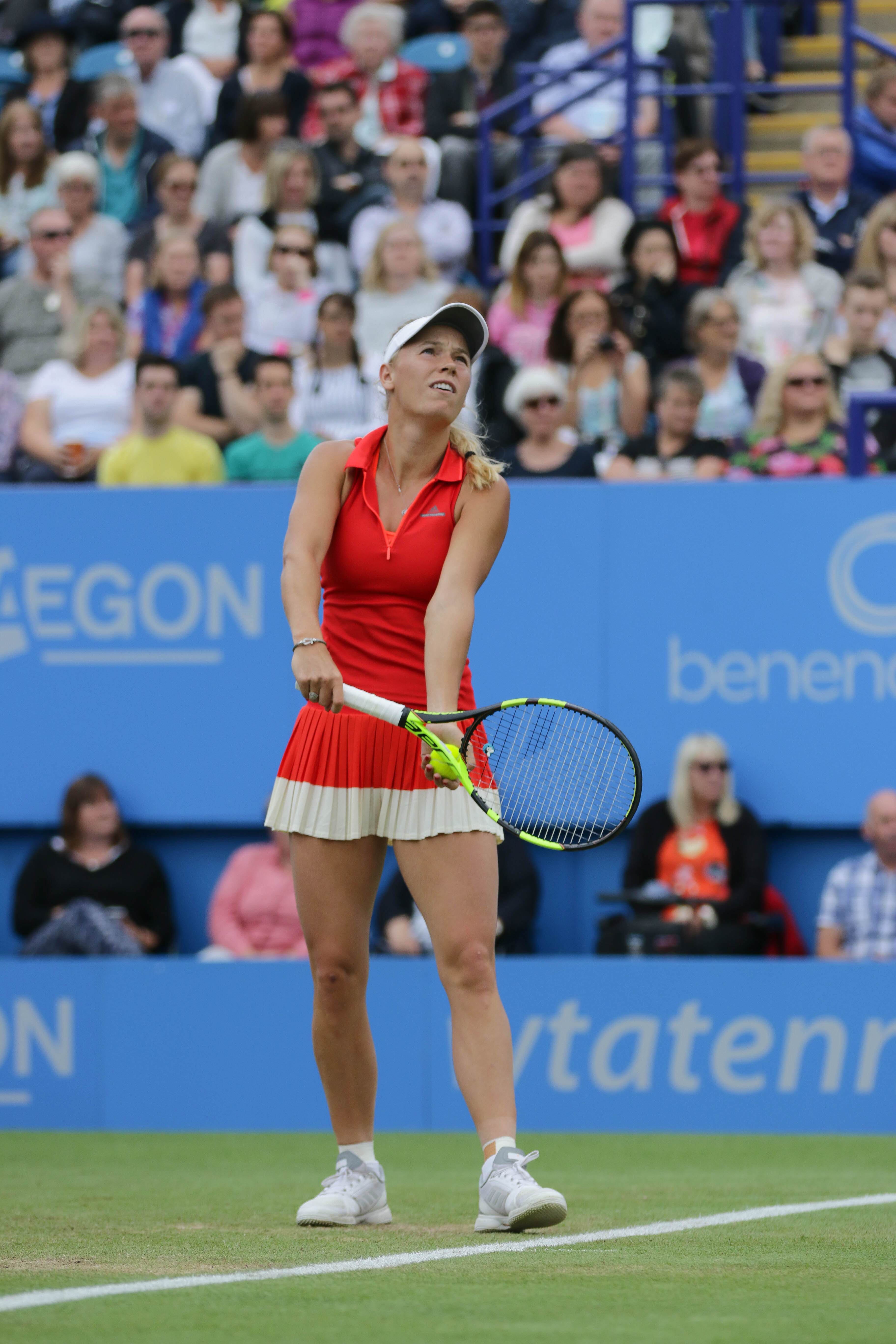 Aegon International Women's Final 2017 Pliscova v Wozniacki-208.jpg